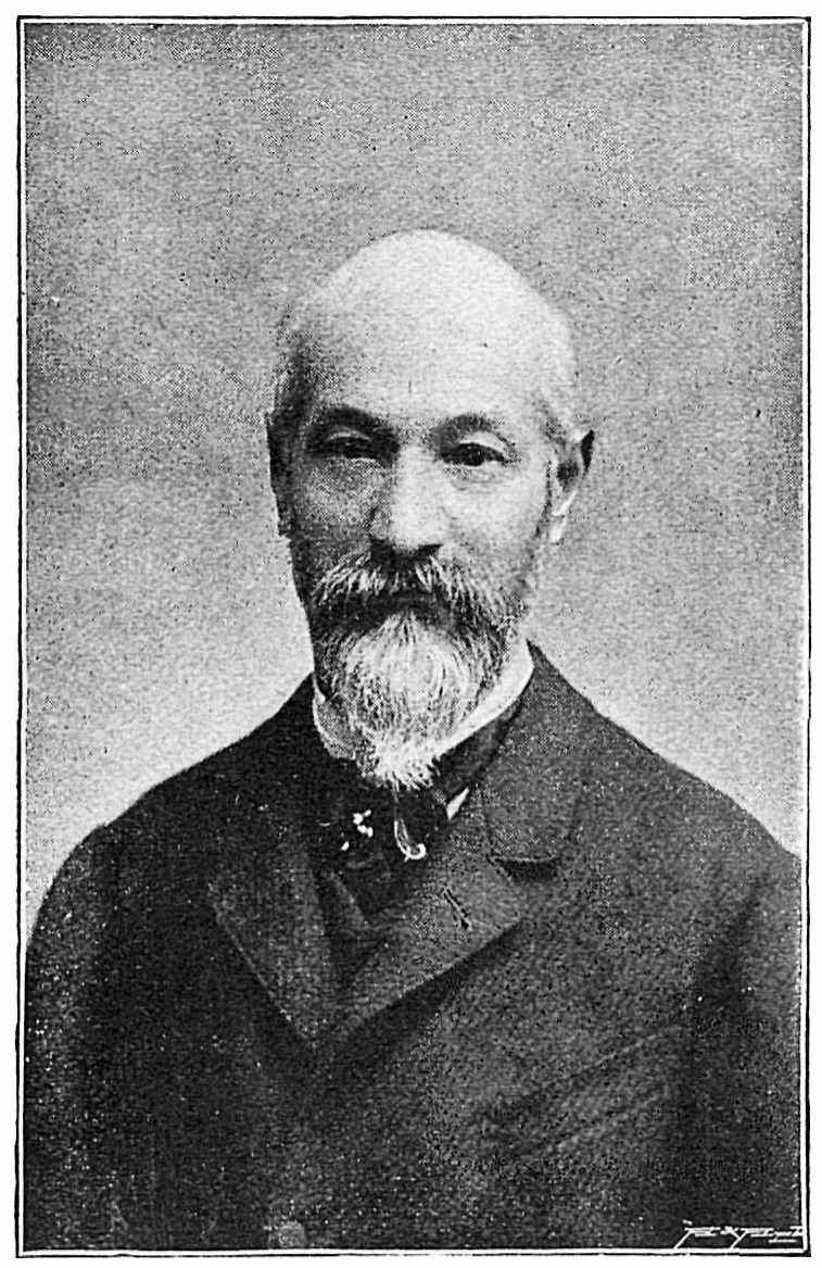 Johannes Frischauf (1837-1924), Austrian mathematician, physicist, astronomer and mountaineer